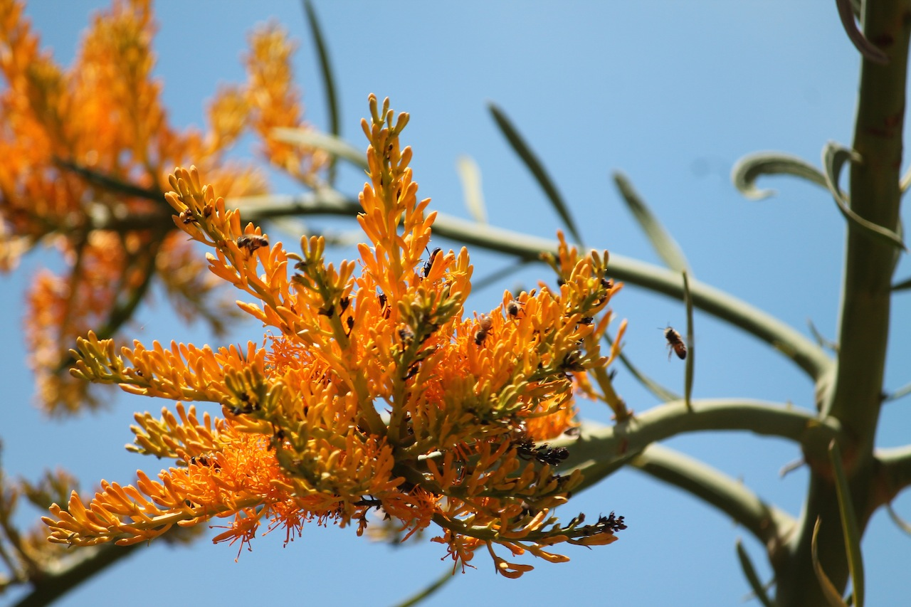 Western Australian Christmas Tree (Nuytsia floribunda) flower